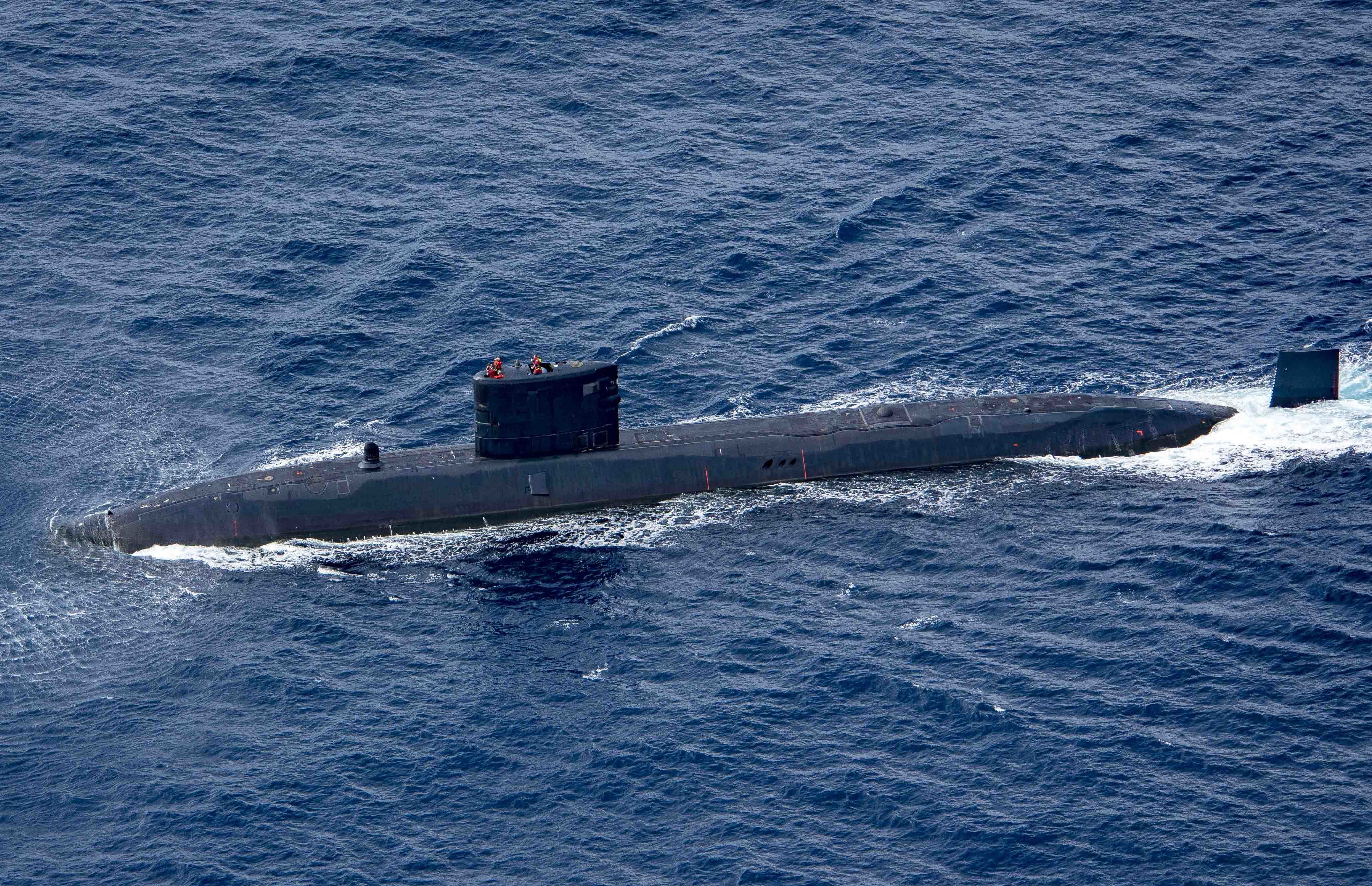 Royal Navy Trafalgar-class submarine HMS Trenchant and Royal Navy Wildcat HMA2, attached to Type 23 frigate HMS Iron Duke (F234), participate in a passenger exchange during exercise Saxon Warrior 2017, Aug. 5. Saxon Warrior is a United States and United Kingdom co-hosted carrier strike group exercise that demonstrates interoperability and capability to respond to crises and deter potential threats.